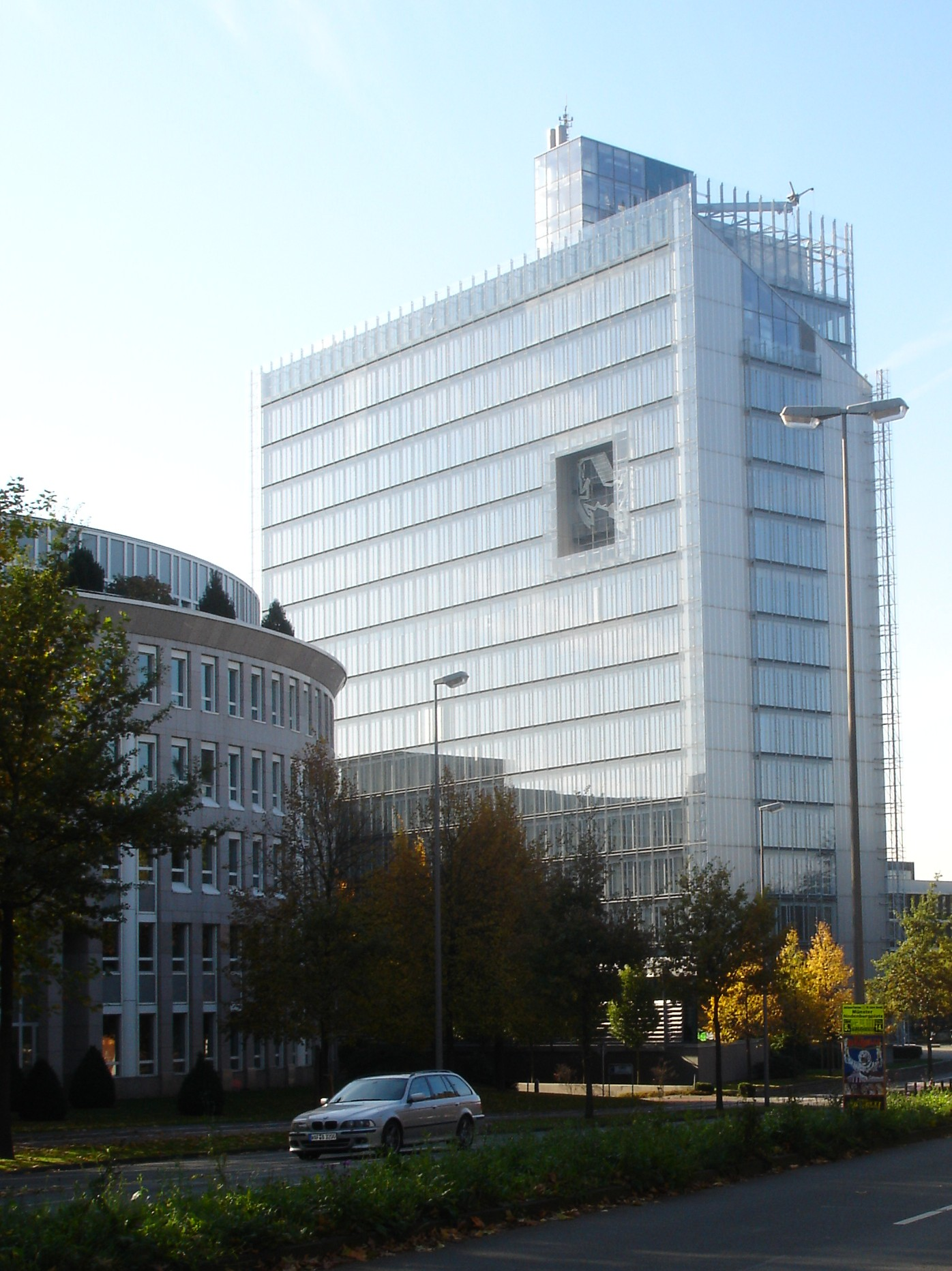 LVM-building in Muenster (Westphalia), Germany